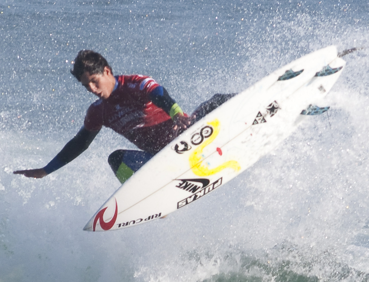 Gabriel Medina surfer